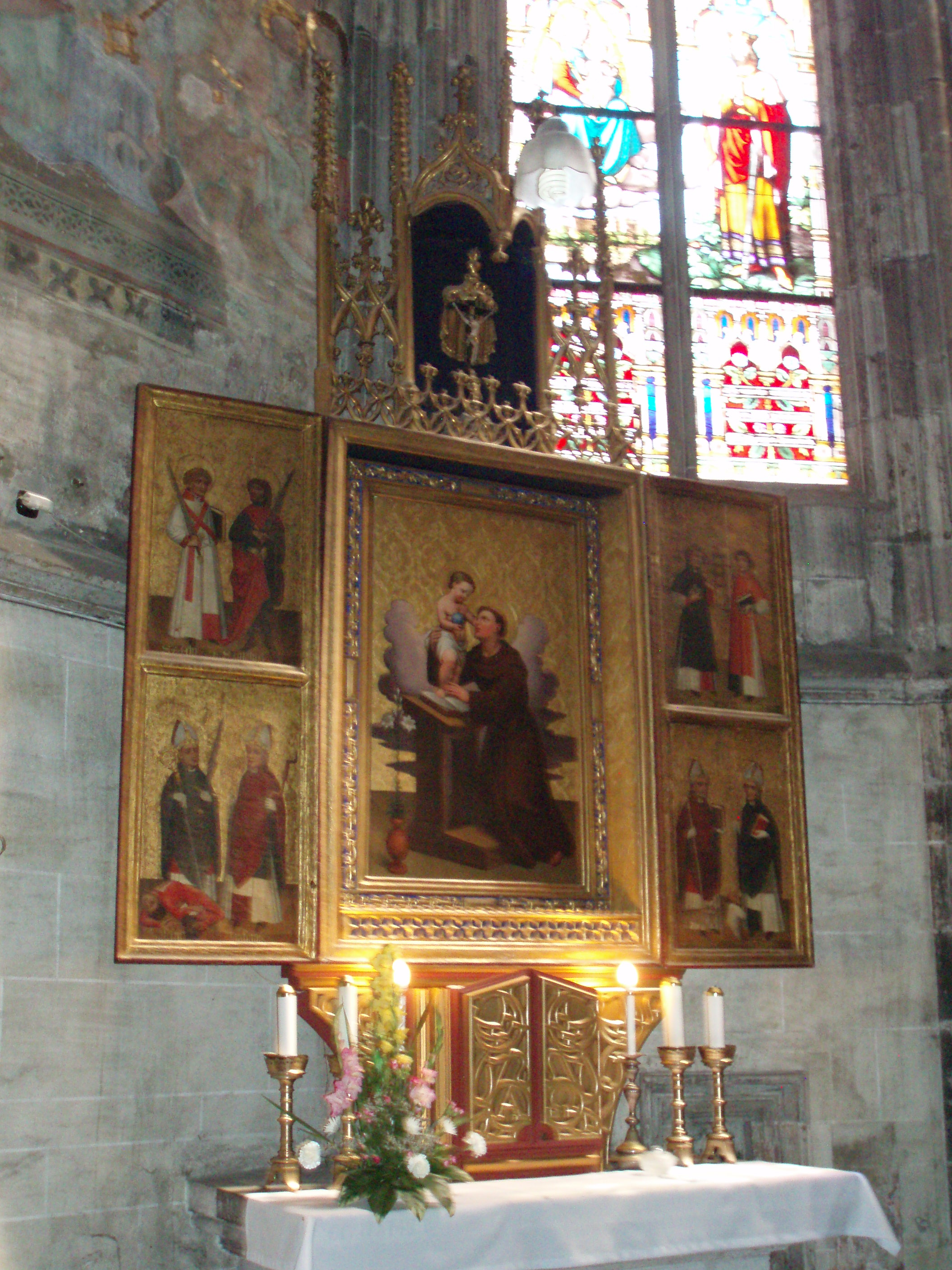 Altar of St.Antoin from Padua, St.Elisabeth Cathedral, Košice